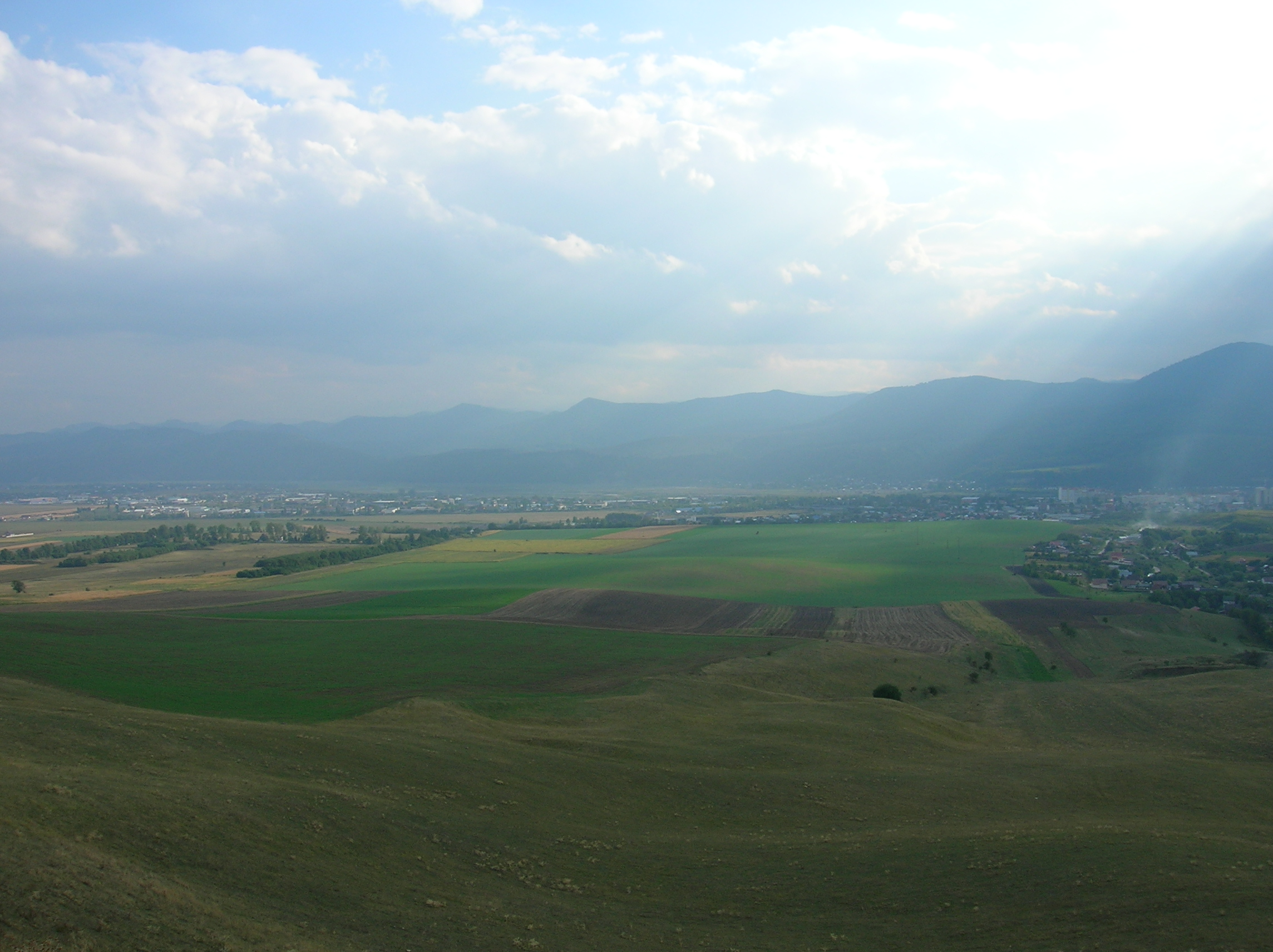 Dealul Vulpii-Boțoaia (Nature Reserve), Neamț county, Romania